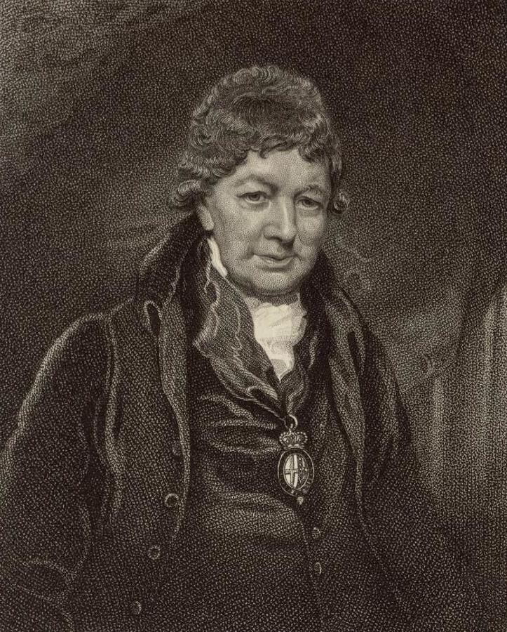 A portrait from the Welsh Portrait Collection at the National Library of Wales. Depicted person: Isaac Heard – Officer of Arms